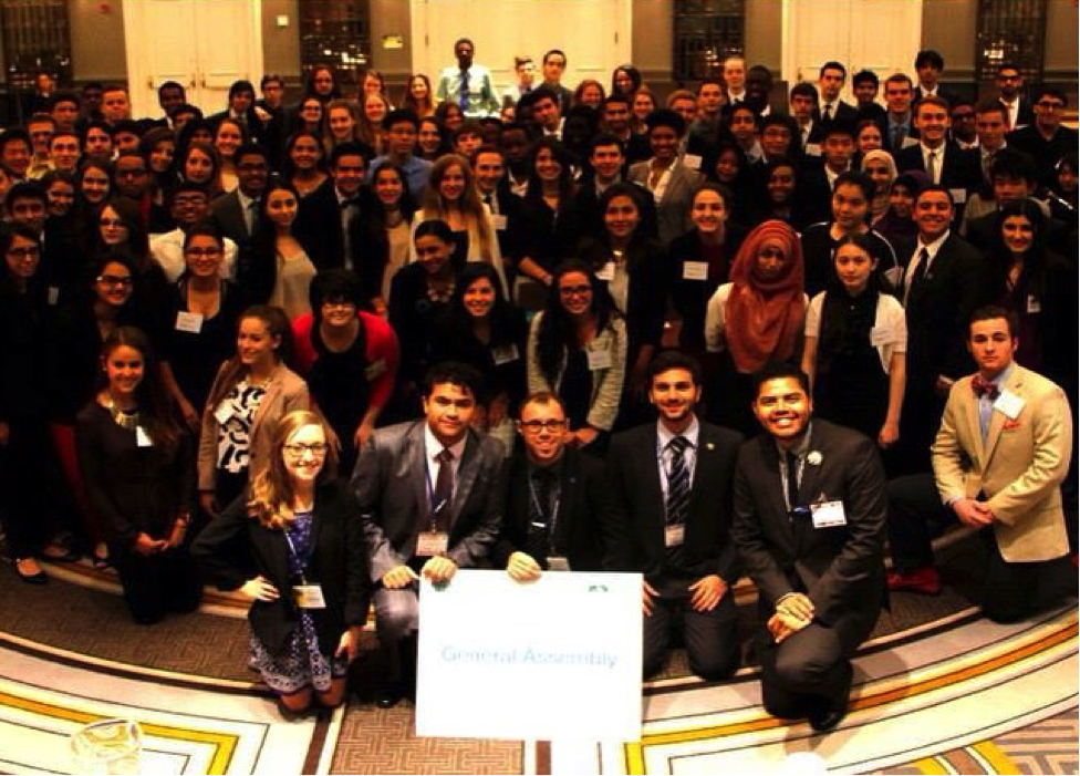 The General Assembly Committee during GCIMUN 2015 in New York